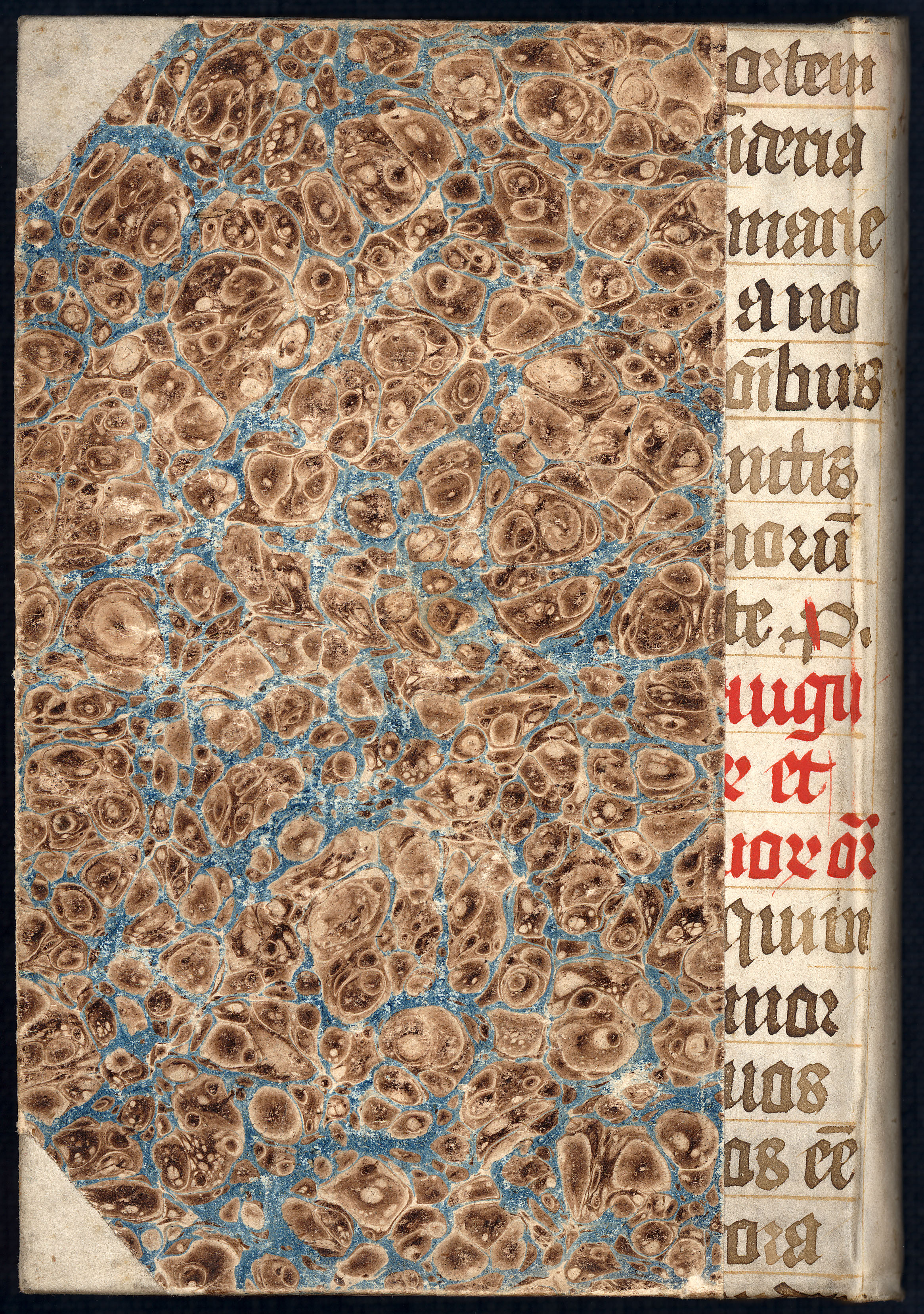 Volume IV of Gottfried Heinrich Schäfer’s Tauchnitz edition of Xenophon’s works, Leipzig 1811, bound in marbled paper and in a leaf from a mediaeval vellum manuscript.